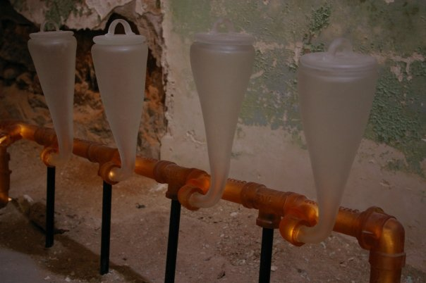 Eastern State Penitentiary Purge Incomplete